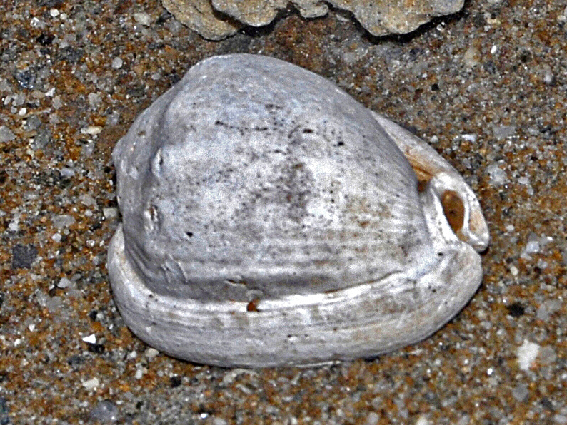 Fossil of Cypraecassis pseudocrumena from Pliocene of Italy. On display at Museo Paleontologico Lai, Ceriale, Savona, Italy